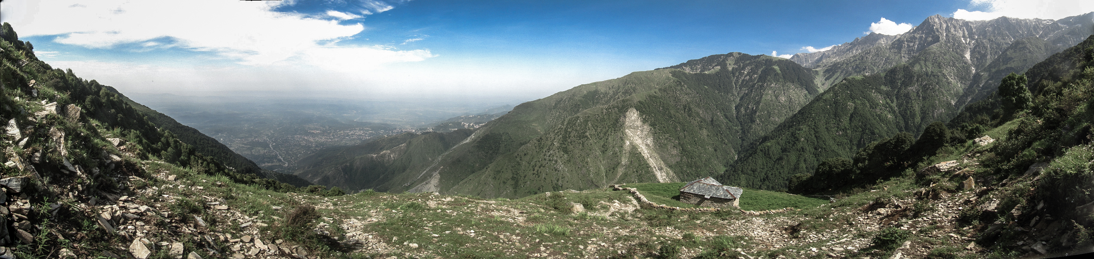 Panoramic view of a Gaddi mountain hut overlooking the Dhauladhar range of the Himalayas and Dharamshala town. For travel details see wikivoyage:Sidhbari